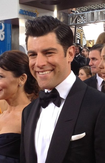 Max Greenfield at the 2013 Golden Globe Awards.